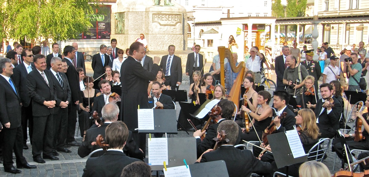 Abdullah Gül, Ljubljana's mayor Zoran Janković and Symphony orchestra RTV Slovenija at Prešeren's square, Ljubljana